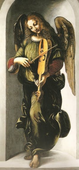 Angel with violin / Panels from the S. Francesco Altarpiece, Milan